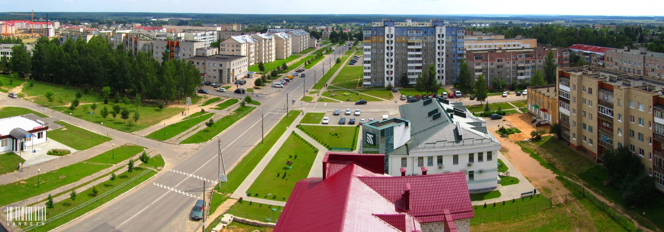 Stolbtsy Town - 2011